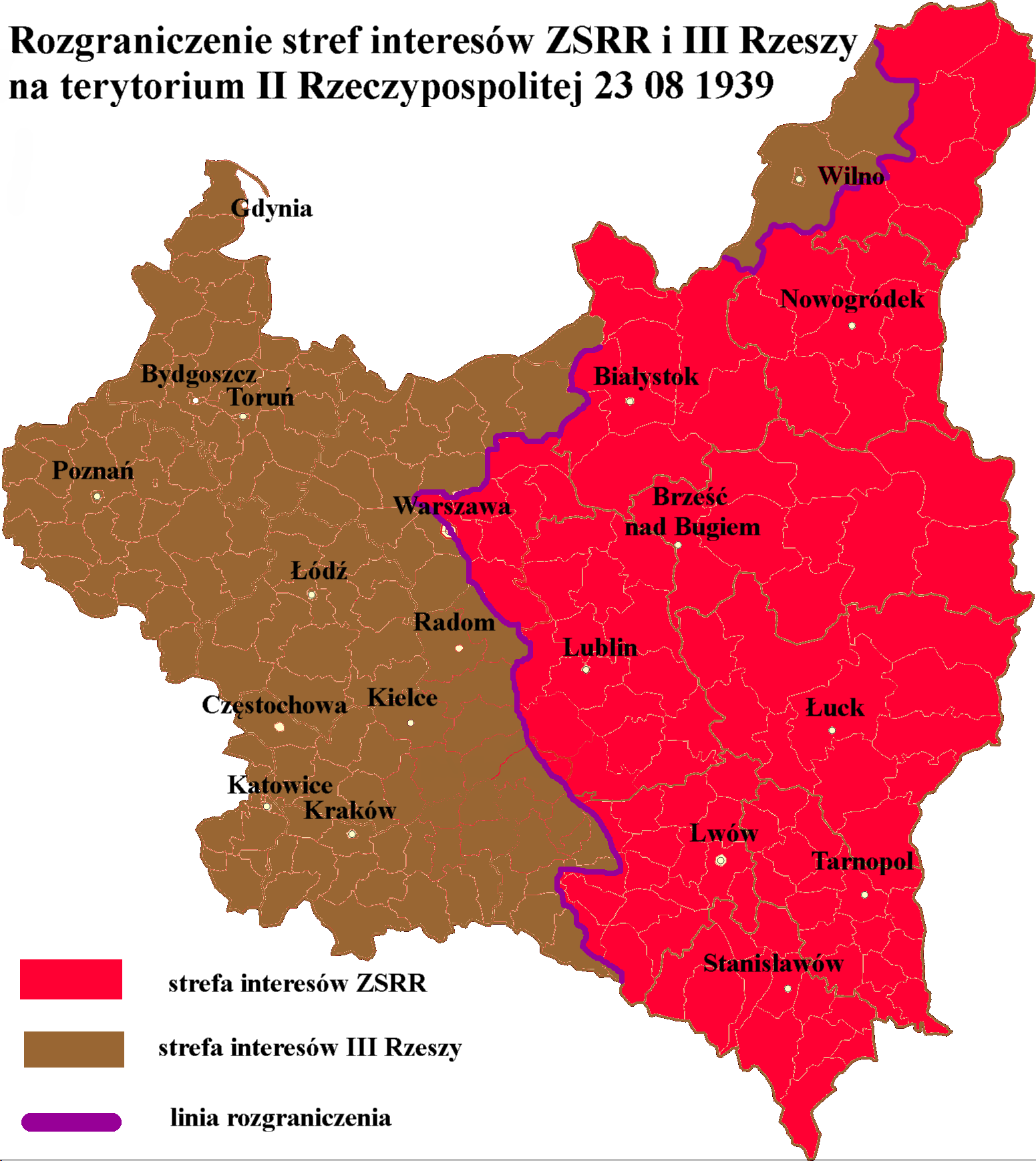 Soviet and German sphere of influence in the Second Polish Republic according to Molotov–Ribbentrop Pact 23.08.1939. Attention! This map is substantially different from the original map attached to the Molotov–Ribbentrop document reproduced below.